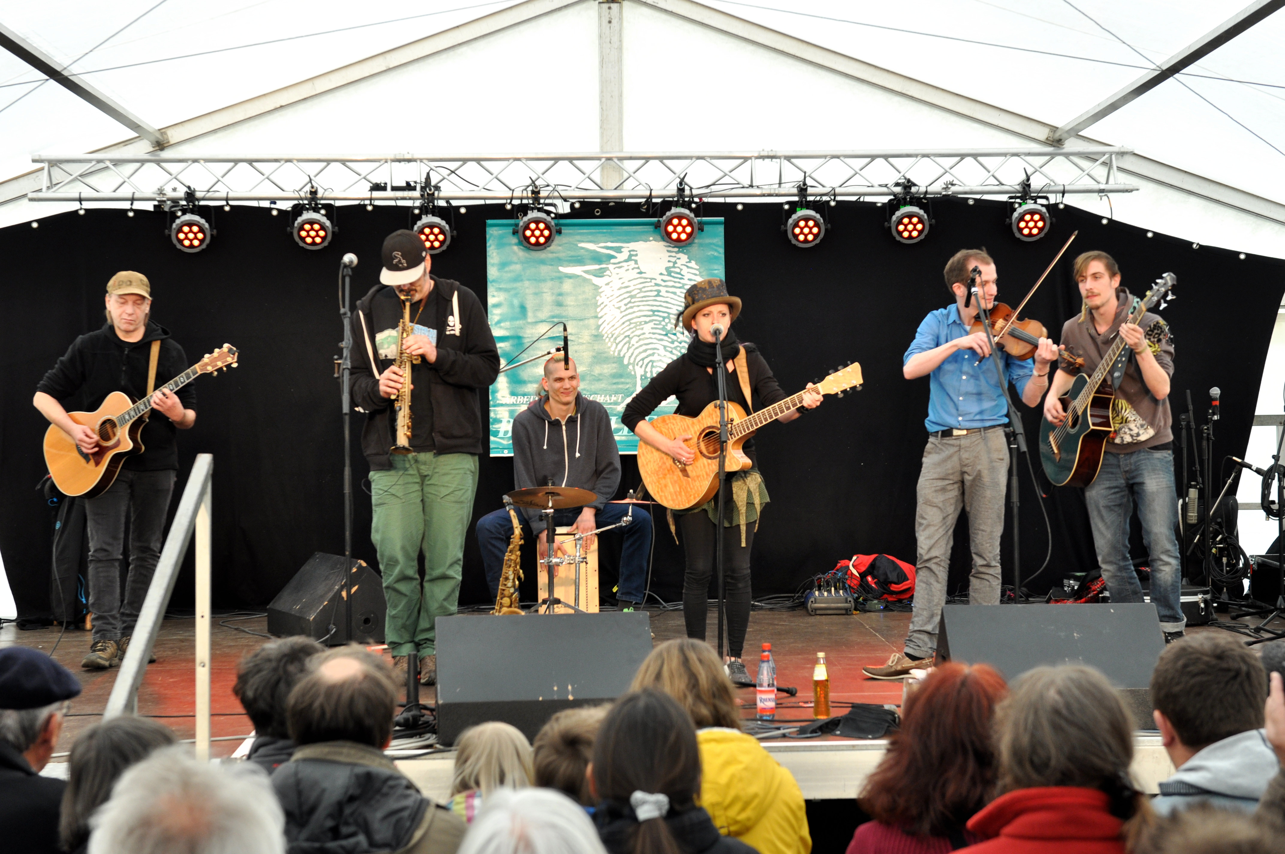 Cynthia Nickschas and Band at the 2016 song festival at Waldeck castle, Dorweiler, Rhineland-Palatinate, Germany Festivalsommer This photo was created with the support of donations to Wikimedia Deutschland in the context of the CPB project "Festival Summer".